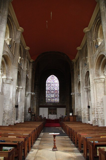 St.Mary & St.Botolph's nave Vast Norman nave of the former Abbey church